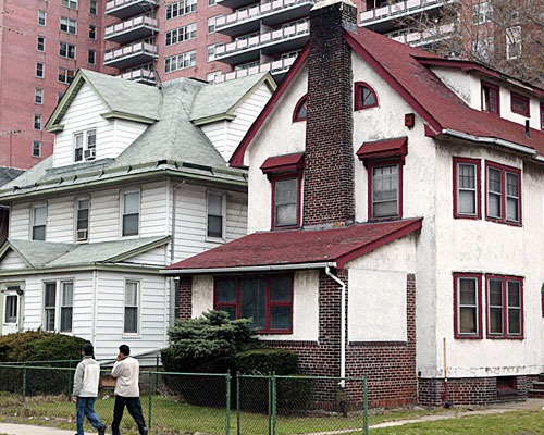 The following houses are on East 7th Street between Church Avenue and Caton Avenue near the Prospect Expressway.